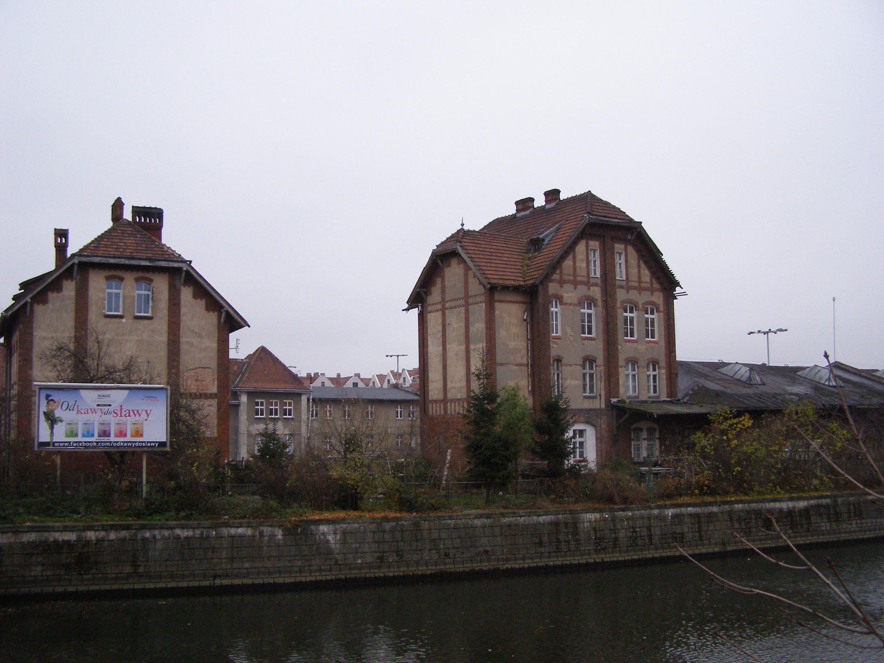 Gdańsk - former Brama Nizinna railway station